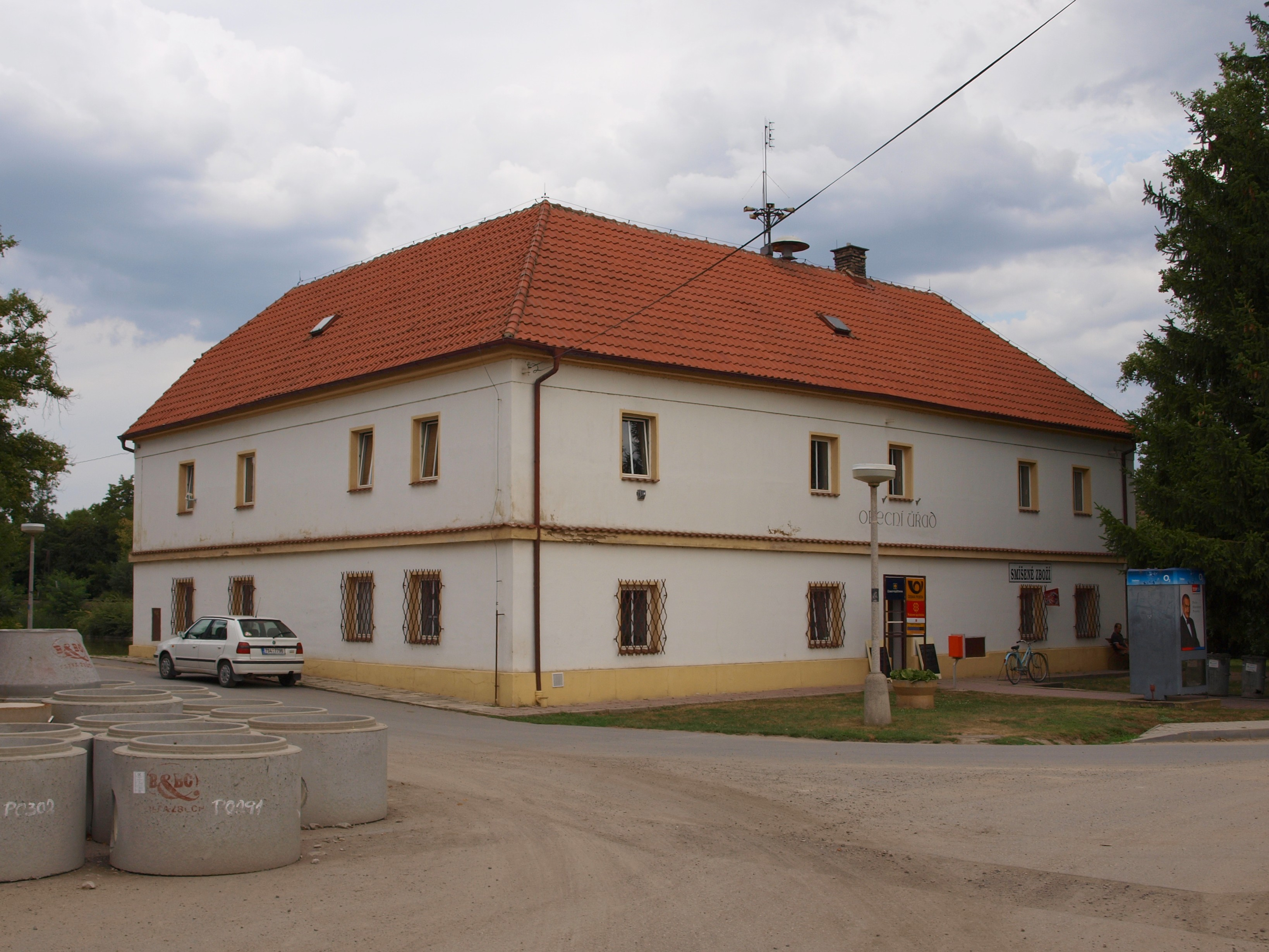 Municipally office, pub, shop and post in one building, Olovnice, Mělník District, Czech Republic